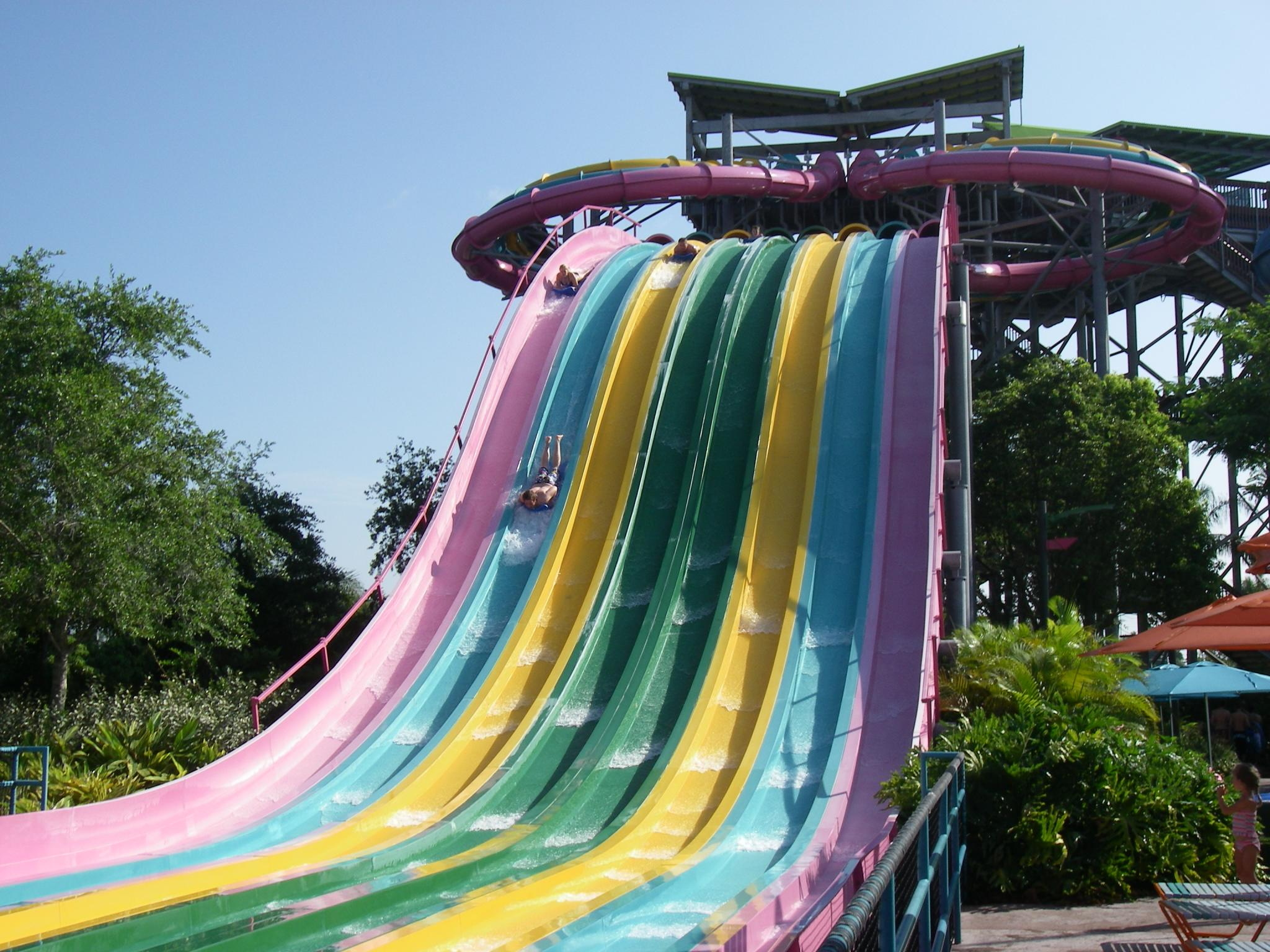 Photo of the Drops of Taumata Racer in Aquatica, Florida